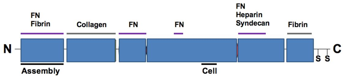 FN domain structure